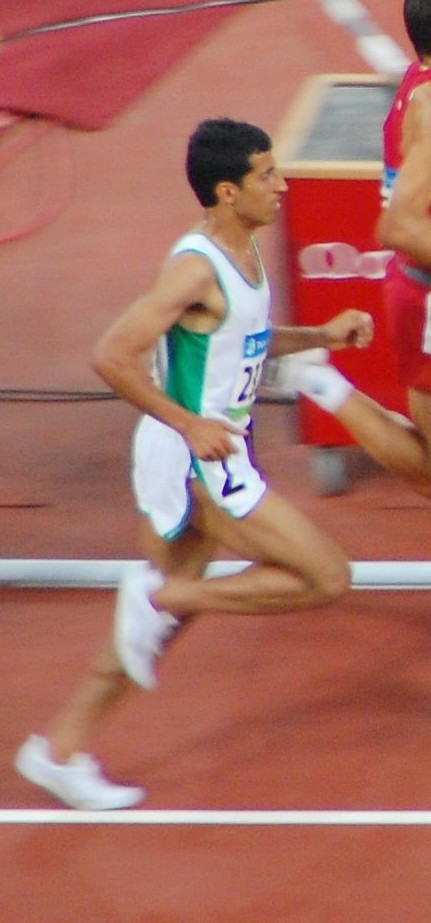 Moukheld Al-Outaibi, 2008 Summer Olympics - Men's 5000m Round 1 - Heat 3